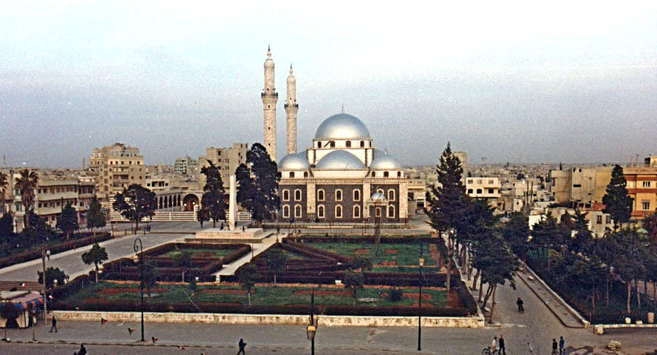 Khaled EbnEl-Walid is an Arabic Hero. He was a great leader of Muslems in their old battles. The Mosque in Homs/Syria is the place of his buried body.